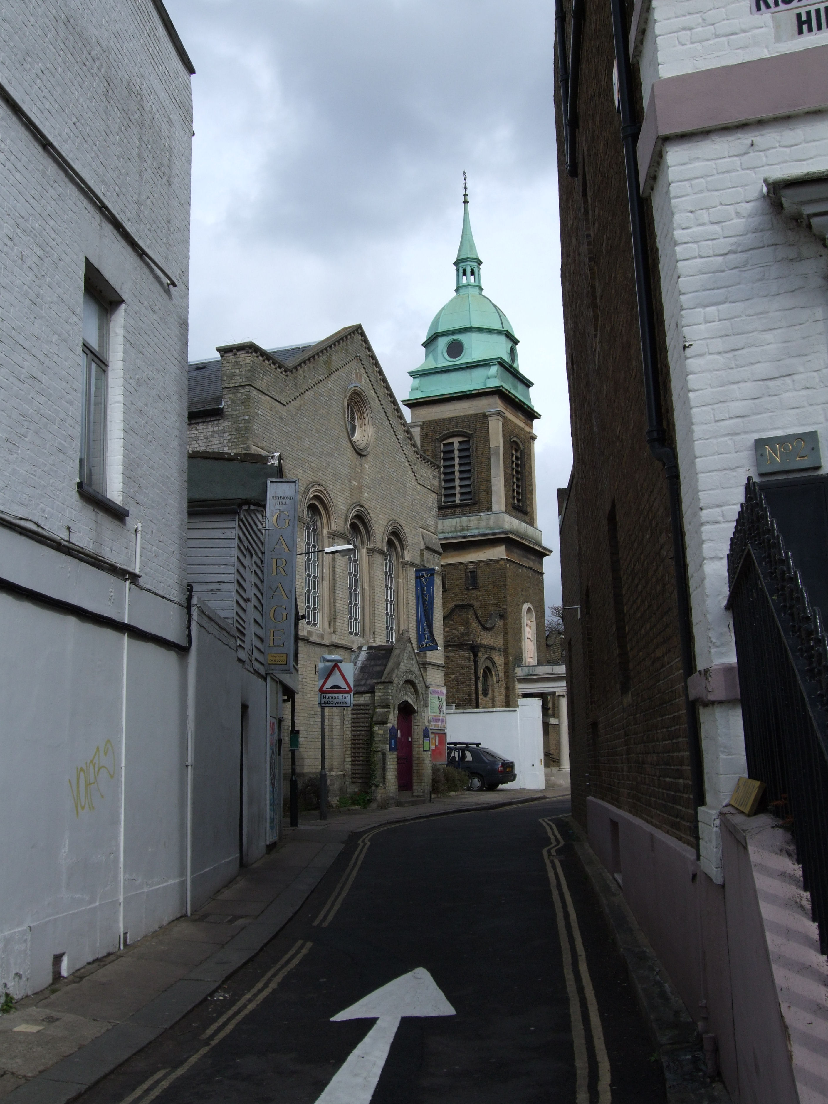 The Vineyard, Richmond Hill, London.